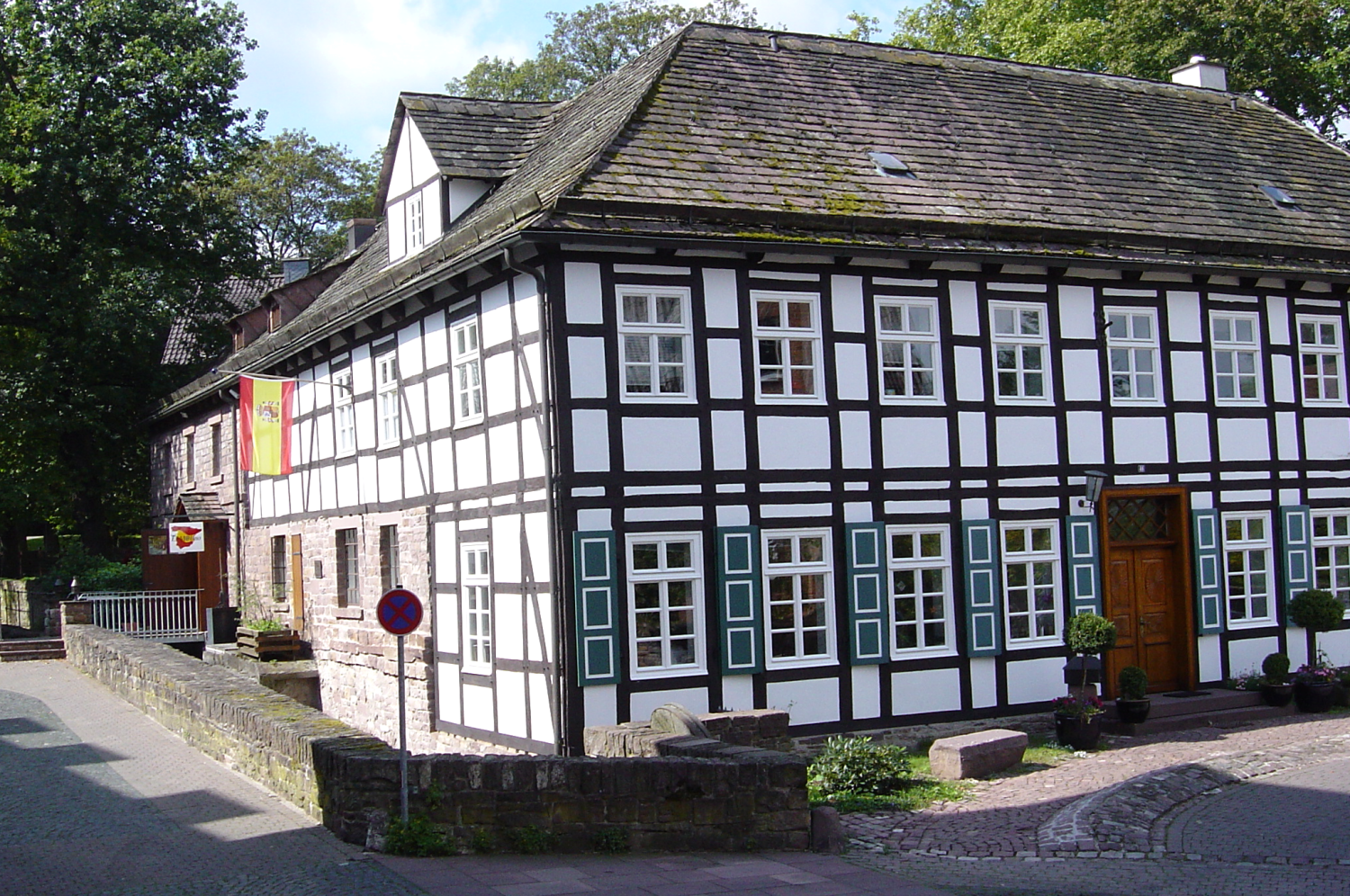 Former gristmill "Obermühle" at the stream "Grube" in Höxter, Germany